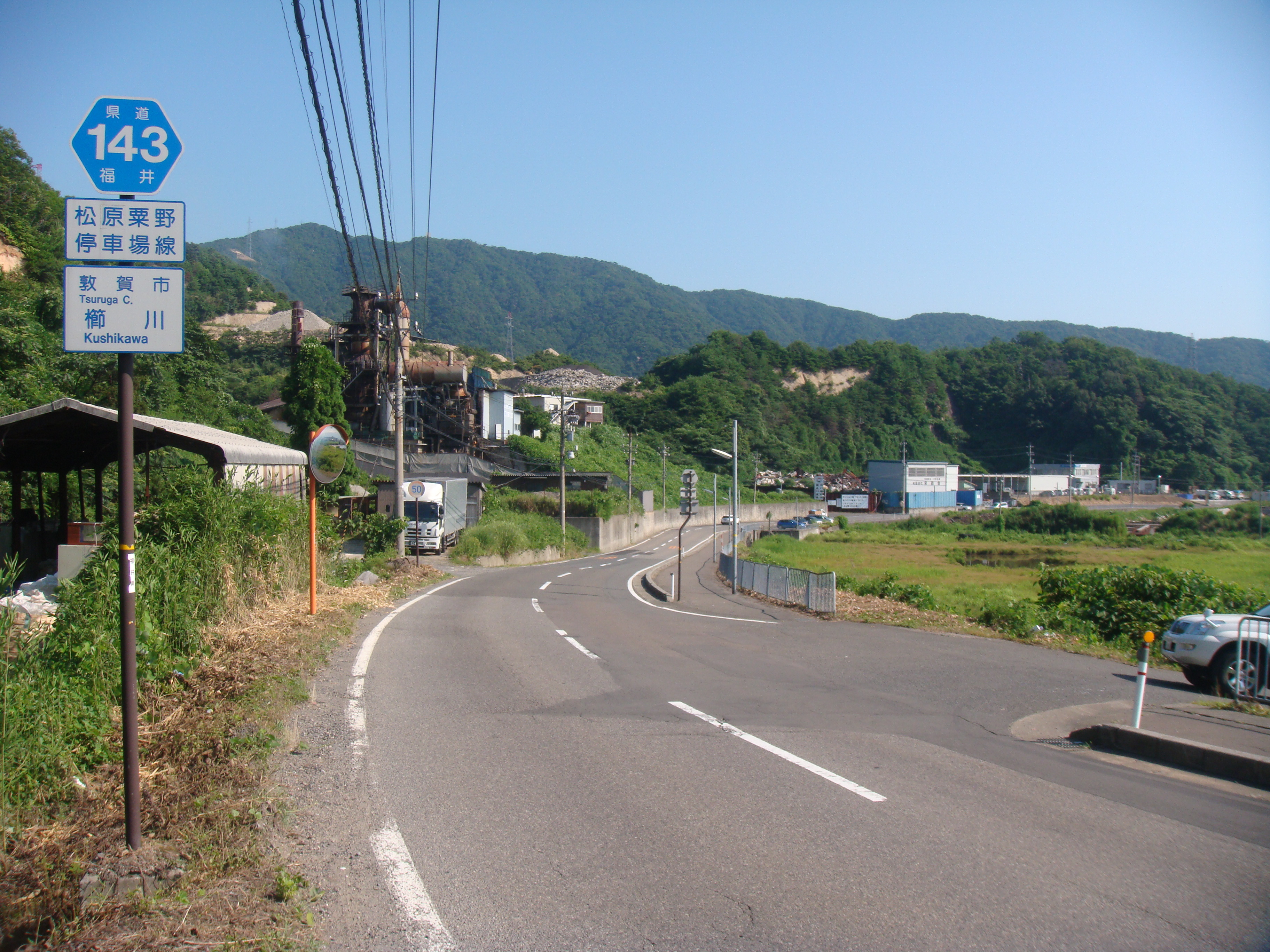 Fukui Prefectural Road Route 143（Matsubara-Awanoteishajo Line） （“teishajo” means railroad station） Place - Kushikawa,Tsuruga City,Fukui Prefecture,Japan Date - July 16, 2011 Format - JPEG, 3648x2736pixel, 24bit colors Photographer - NALA Wiki (talk)